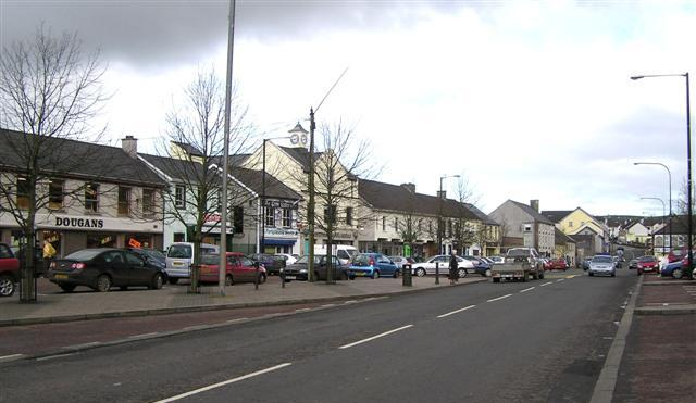 Portglenone, County Antrim Looking up the main street